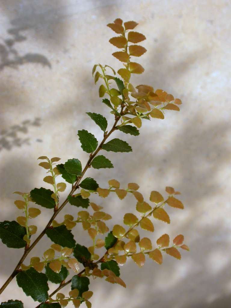 Young growth on Nothofagus cunninghamii (Myrtle Beech)